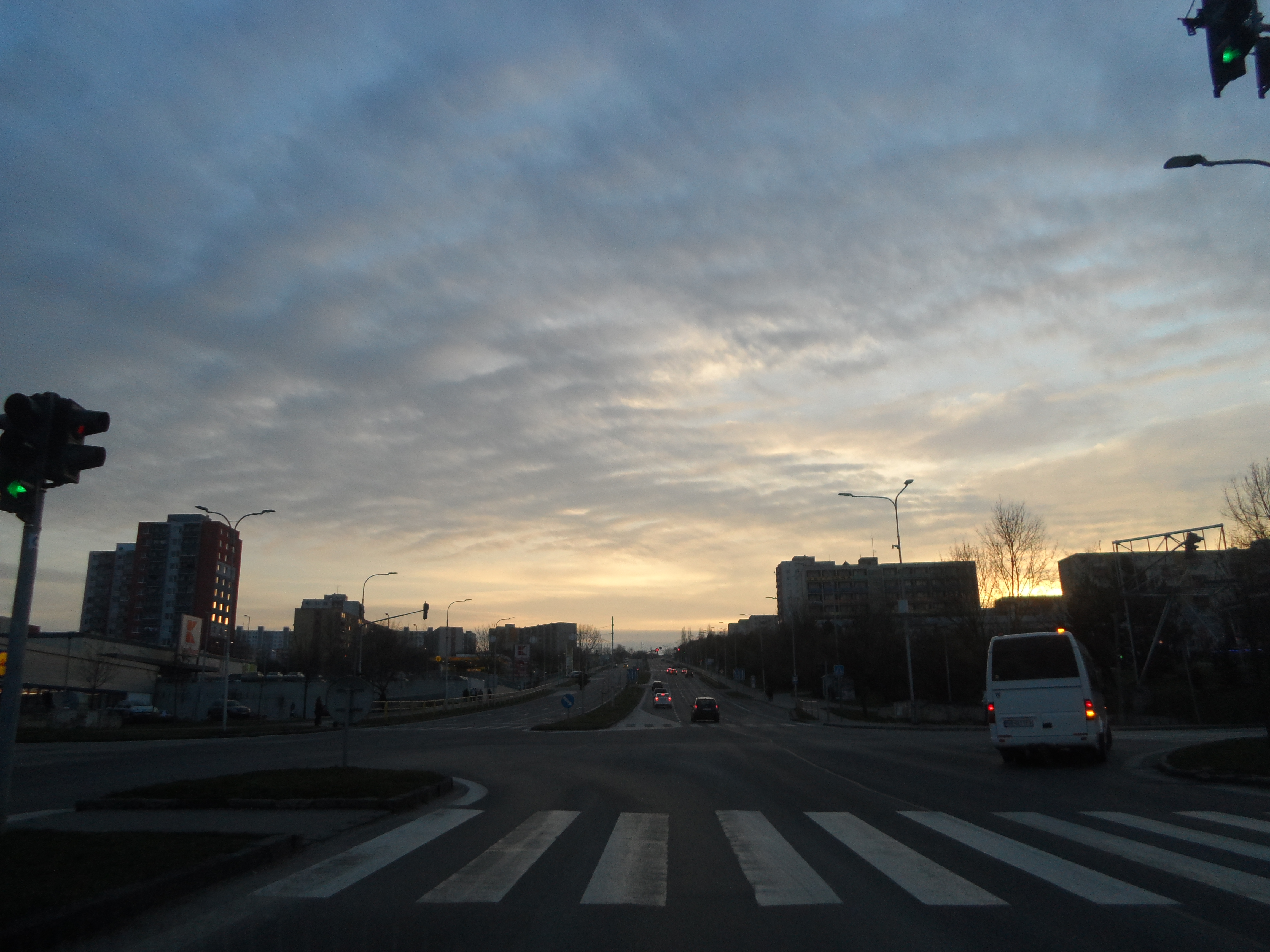 Hviezdoslavova street - Nitra, Klokocina